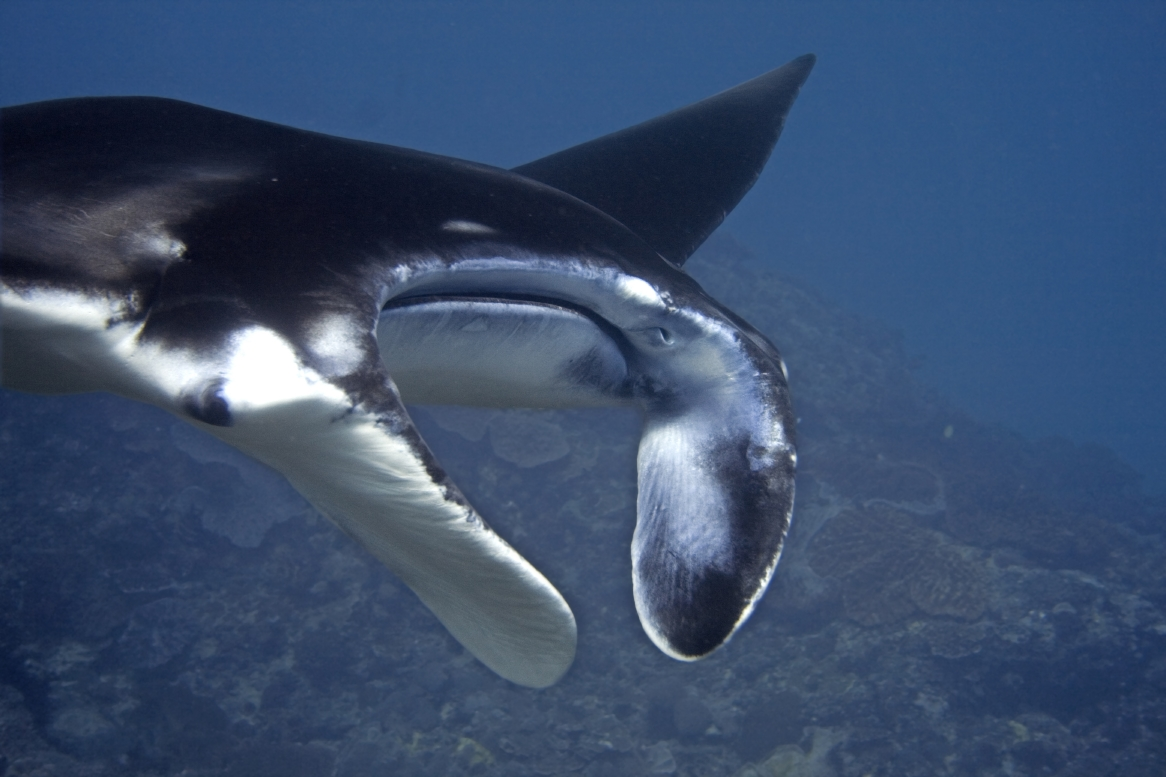 Portrait of Manta at Manta Point in Bali